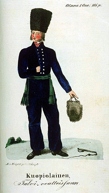 Man from Kuopio, Finland, in a national costume.